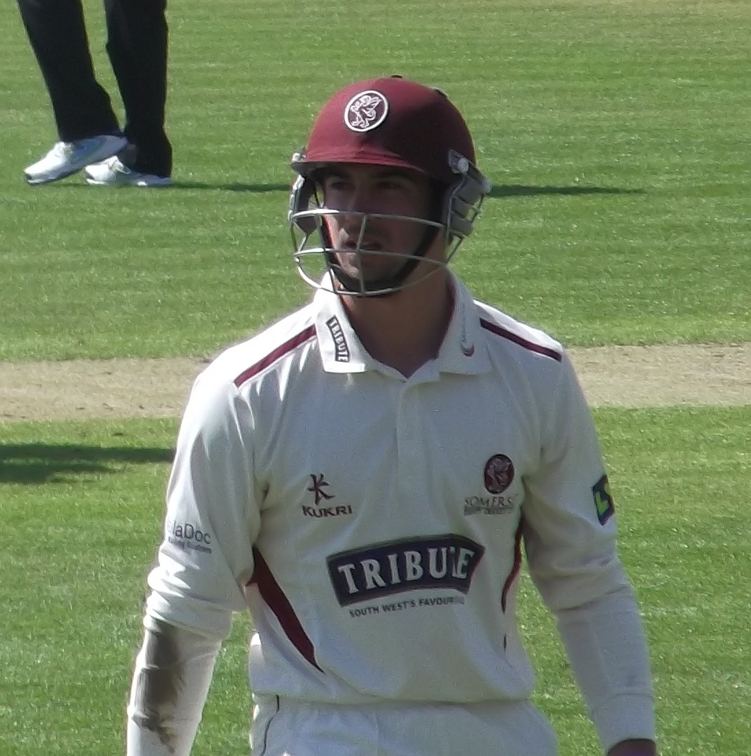 Alex Barrow dismissed while playing for the Somerset 2nd XI against Devon